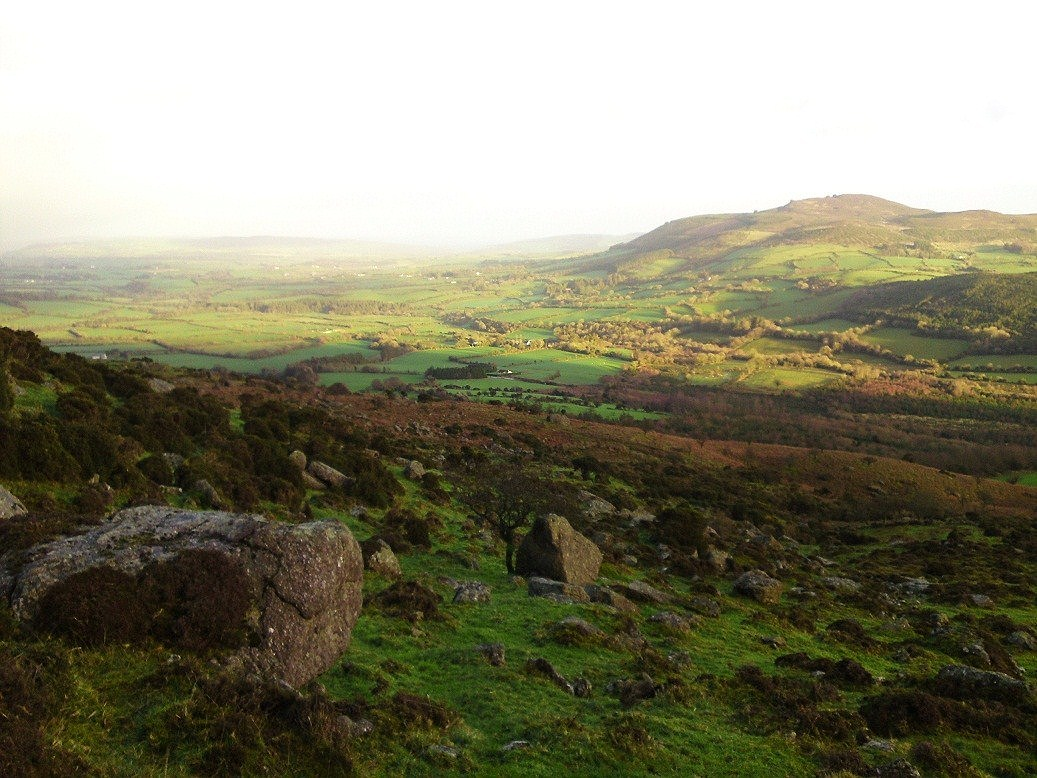 A view from Coumshingaun overlooking County Waterford